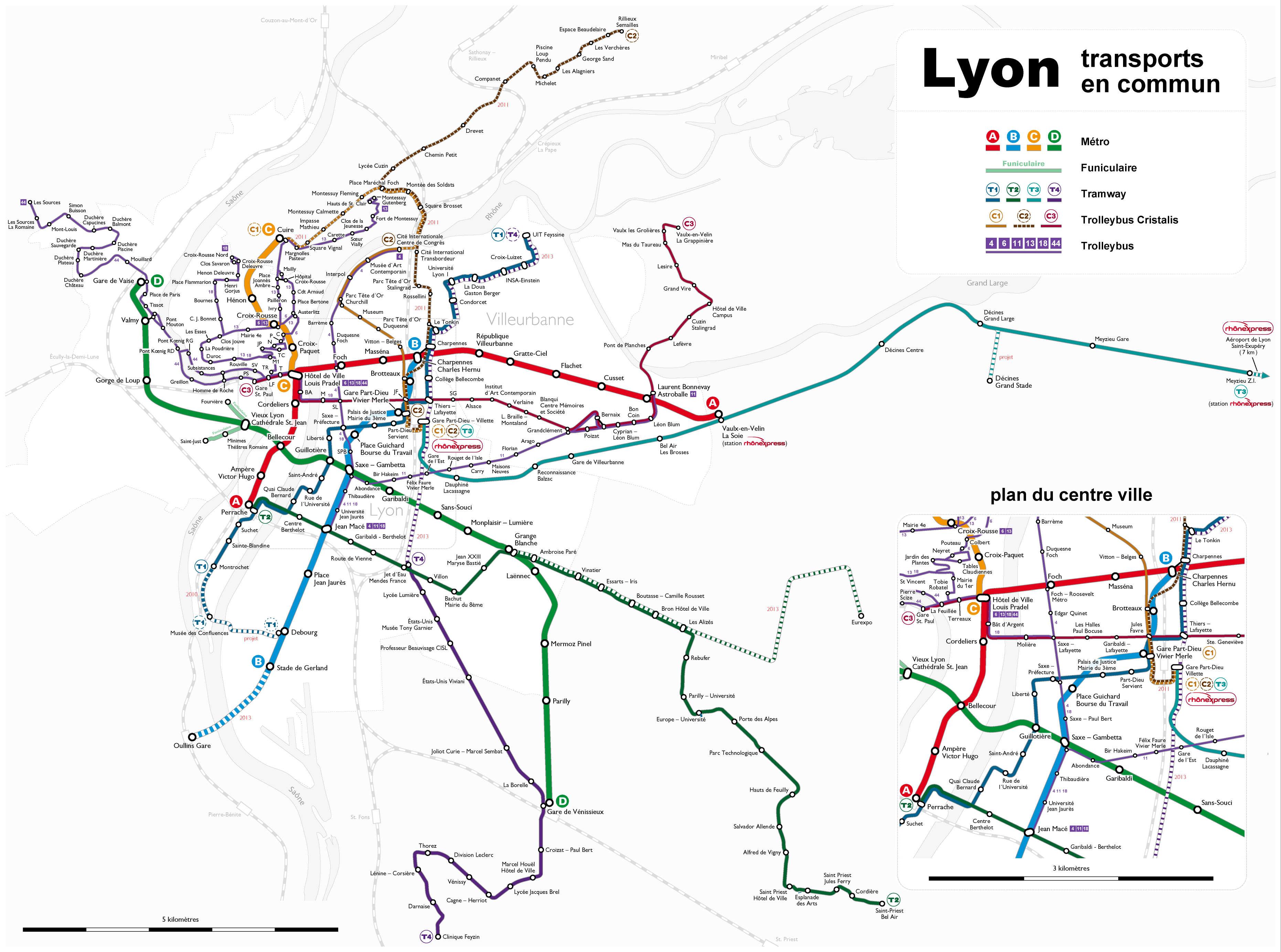 Map of Lyon: Metro, tramway and trolleybus routes as in May 2009